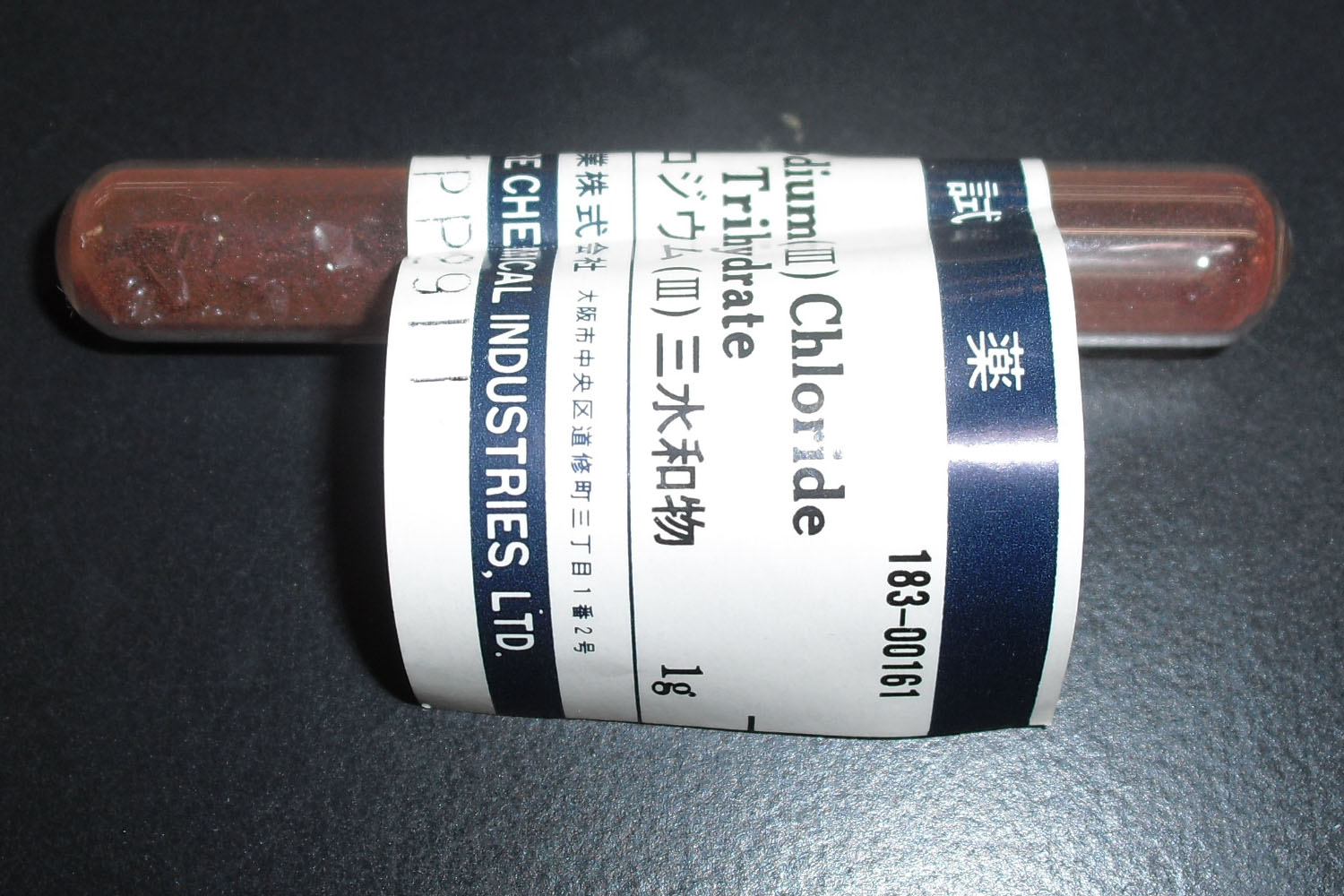 Rhodium(III) chloride